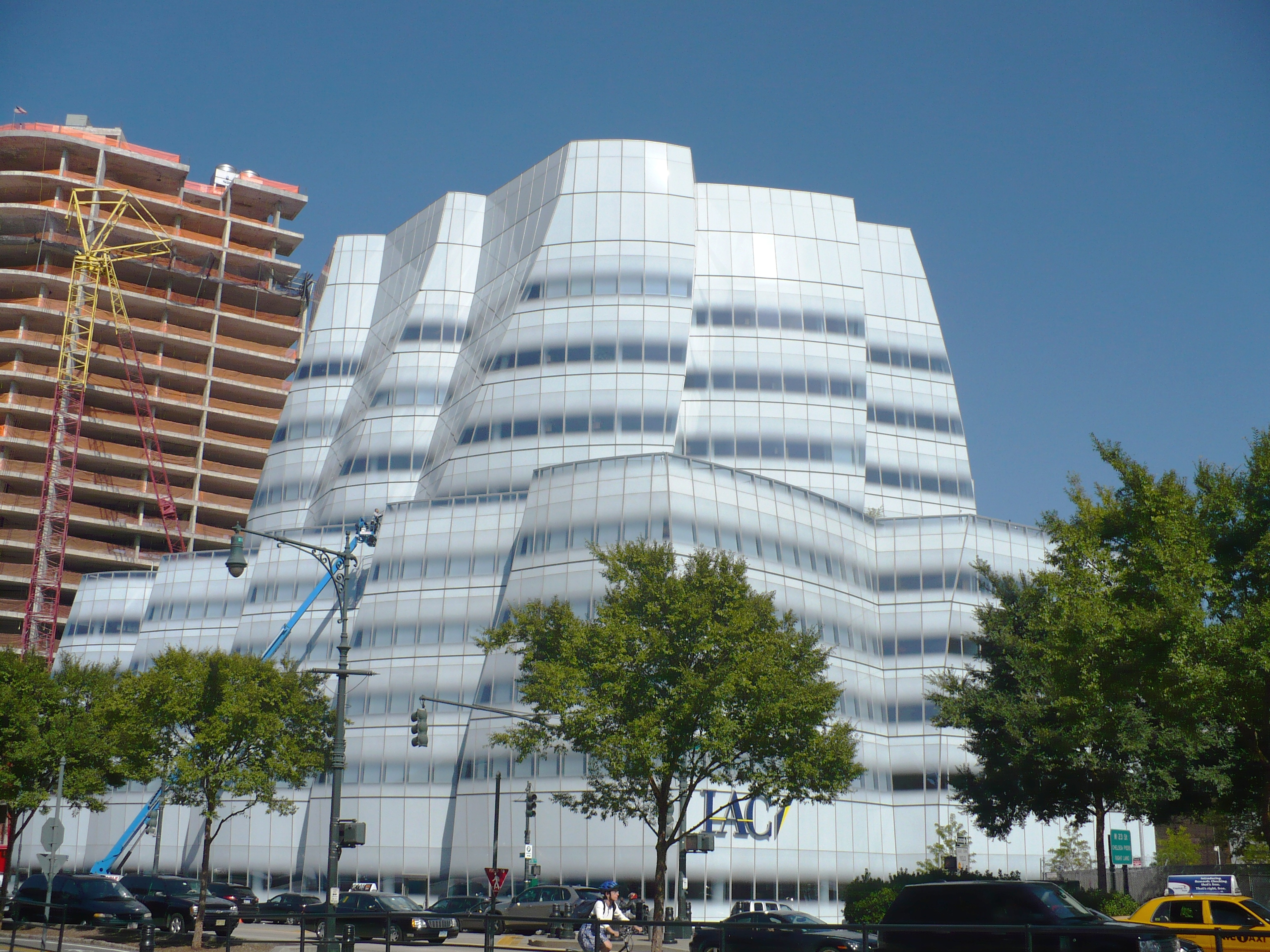 IAC/InterActiveCorp Headquarters Building in NY City, USA. See also File:IAC building.jpg.